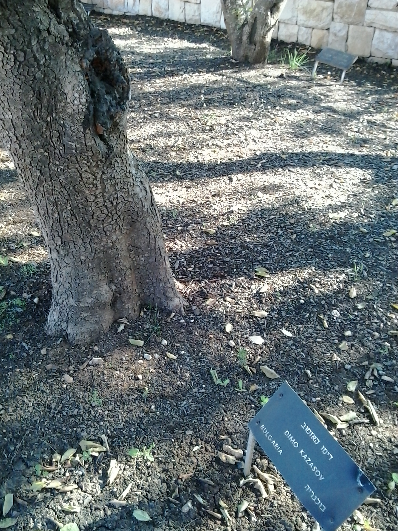 The tree planted at Yad Vashem honoring Righteous Among the Nations Dimo Kazasov